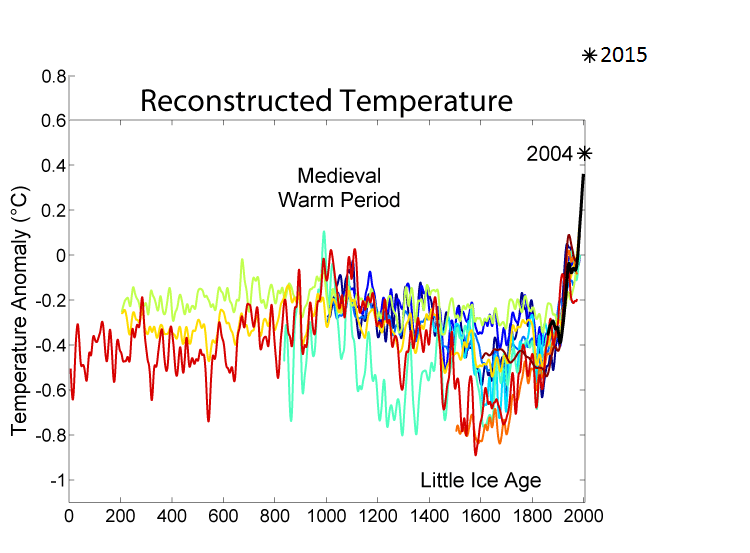 This is a derivative of Dragons flight's "2000 Year Temperature Comparison" from 2005. I added a data point for the .09C anomaly for 2015.